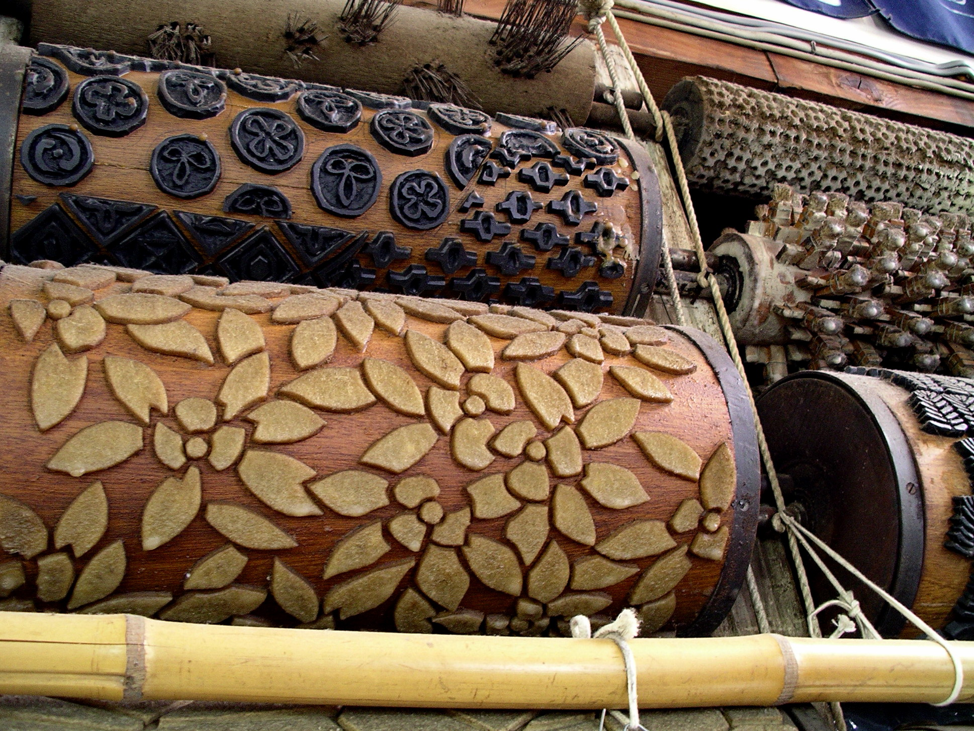 Roketsuzome (Japanese style batik) printing wheels at Roketsuzome Yamamoto, Kyoto, Japan.